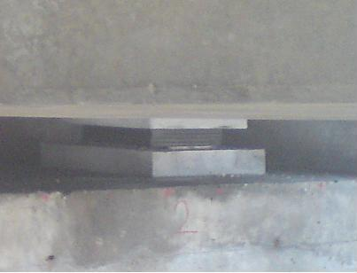 appareil d'appuis gières